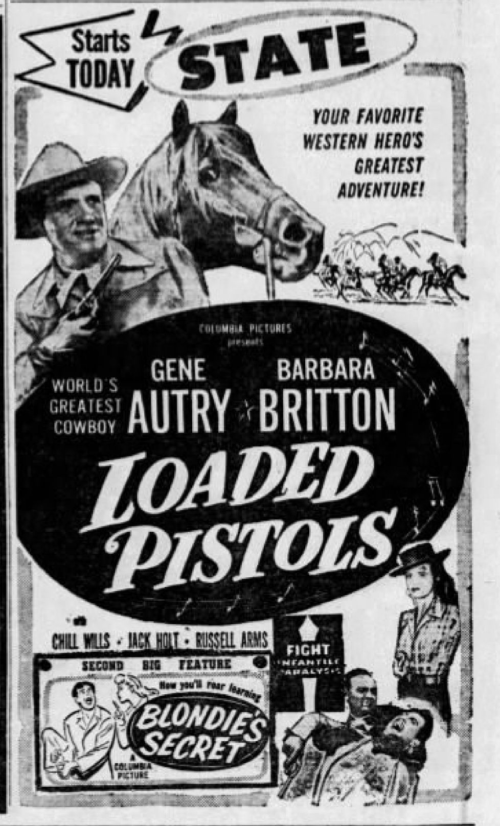 State Theater advertisement for the American western film Loaded Pistols (1948) and the second feature Blondie's Secret (1948) - 28 Jan. 1949 Morning Call, Allentown PA